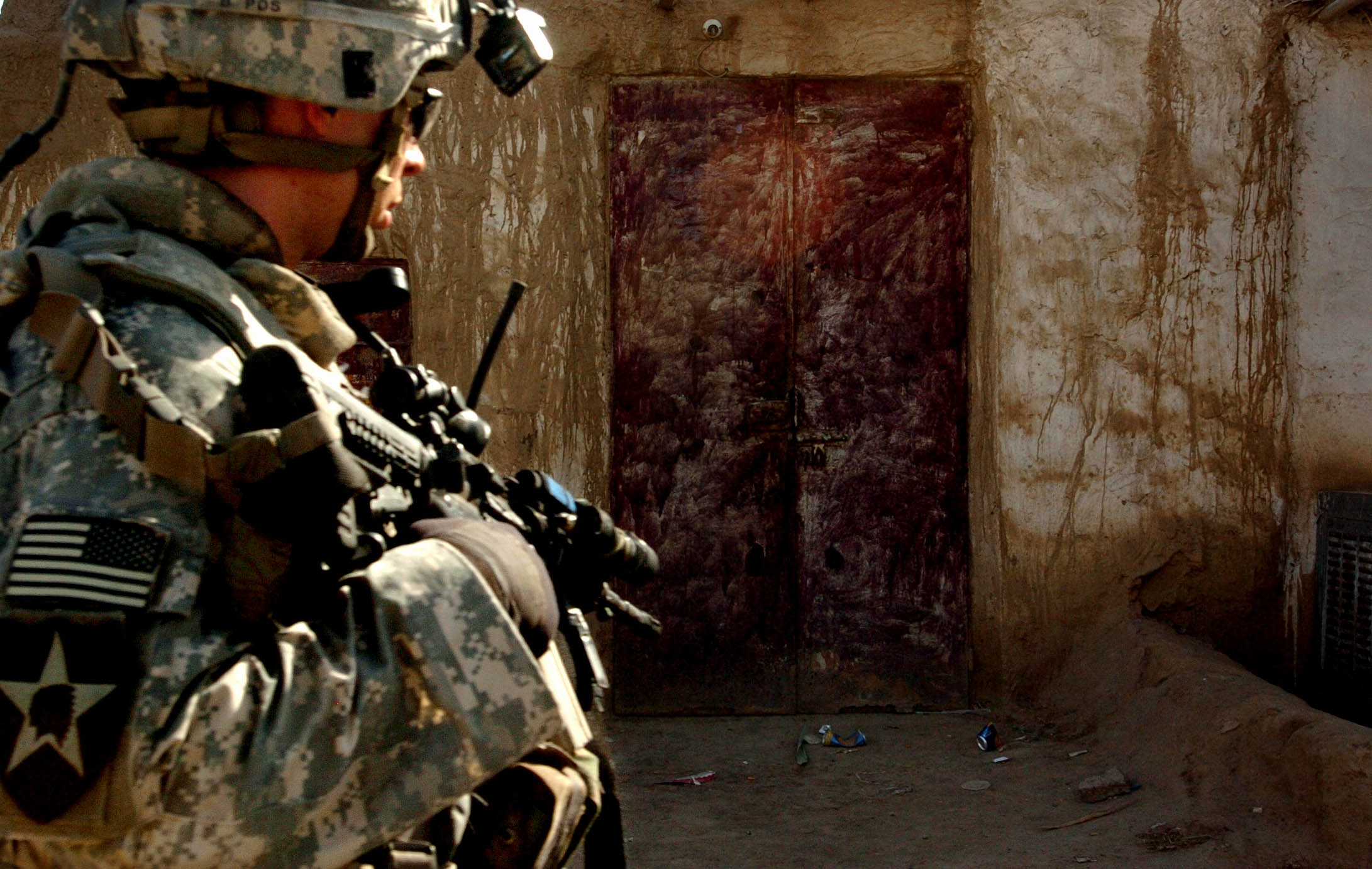 Soldiers from Fort Lewis, Wash., who have been using the Land Warrior and Mounted Warrior systems in Iraq for the last 45 days, report that these "great tools" have surpassed their expectations.